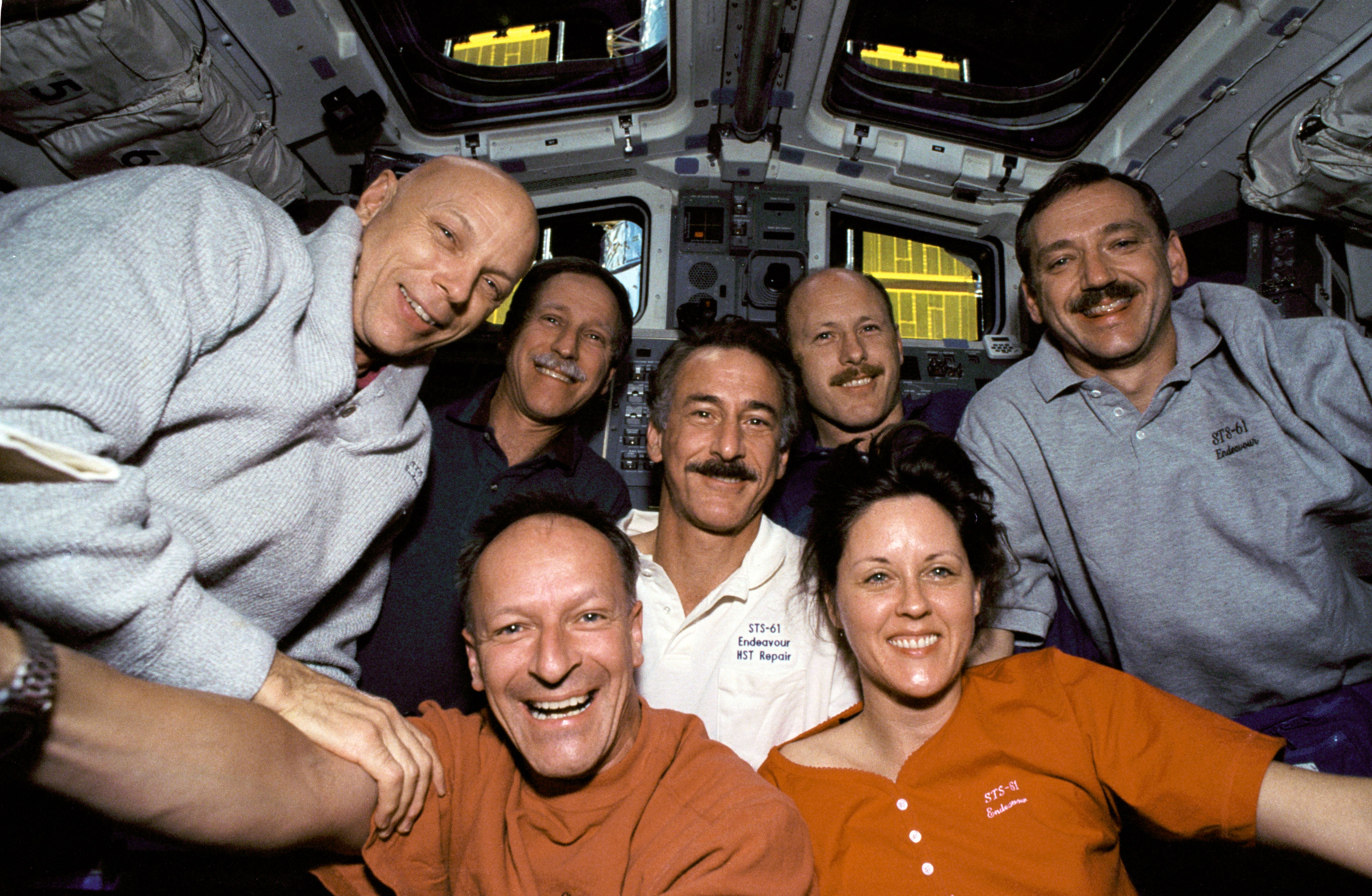 With the Hubble Space Telescope (HST) berthed in Endeavour's cargo bay, crew members for the STS-61 mission pause for a crew portrait on the flight deck. Left to right are F. Story Musgrave, Richard O. Covey, Claude Nicollier, Jeffrey A. Hoffman, Kenneth D. Bowersox, Kathryn C. Thornton and Thomas D. Akers.